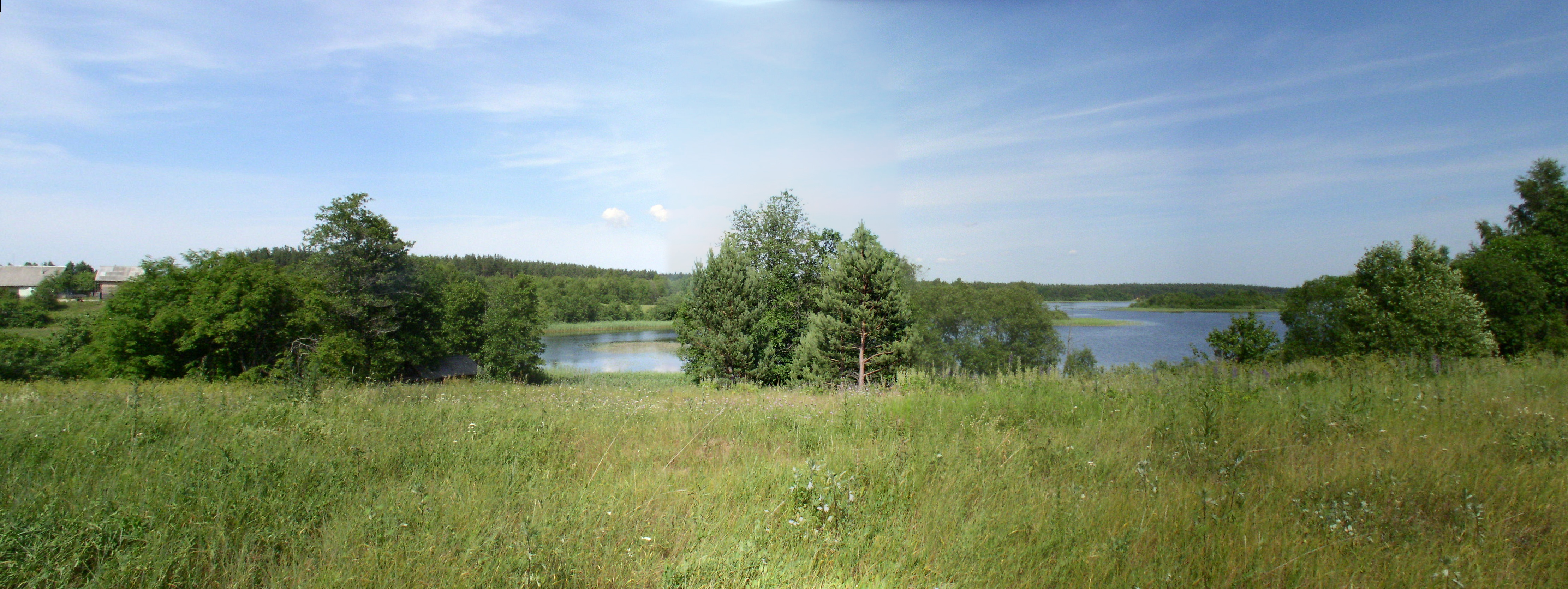 Valoba Lake, Rasony district, Belarus.